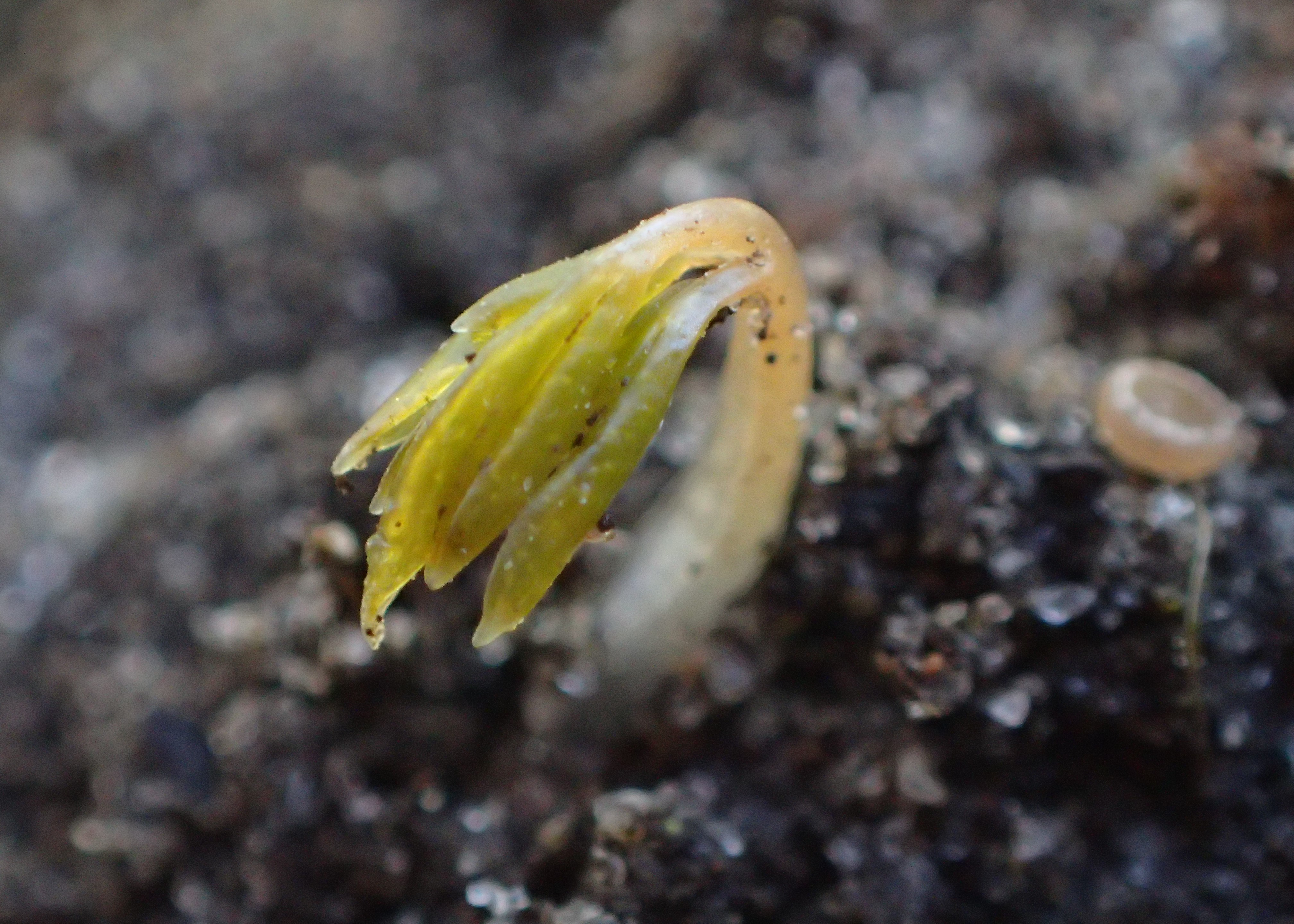 Adoxa moschatellina, first leaf. Police near Szczecin, NW Poland